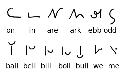 Thomas Shelton's English shorthand system - examples of vowel representation. The information is based on Olof W. Melin's "Stenografiens historia, första delen", 1927, p. 90.